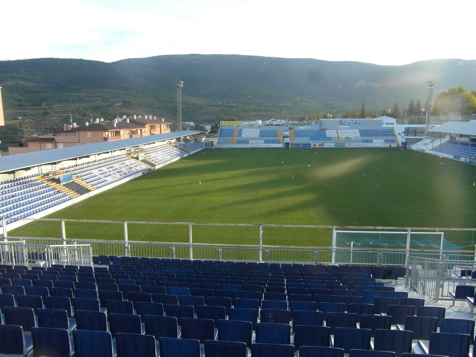 C.D. Alcoyano's Stadium. Based in the city of Alcoy, Spain